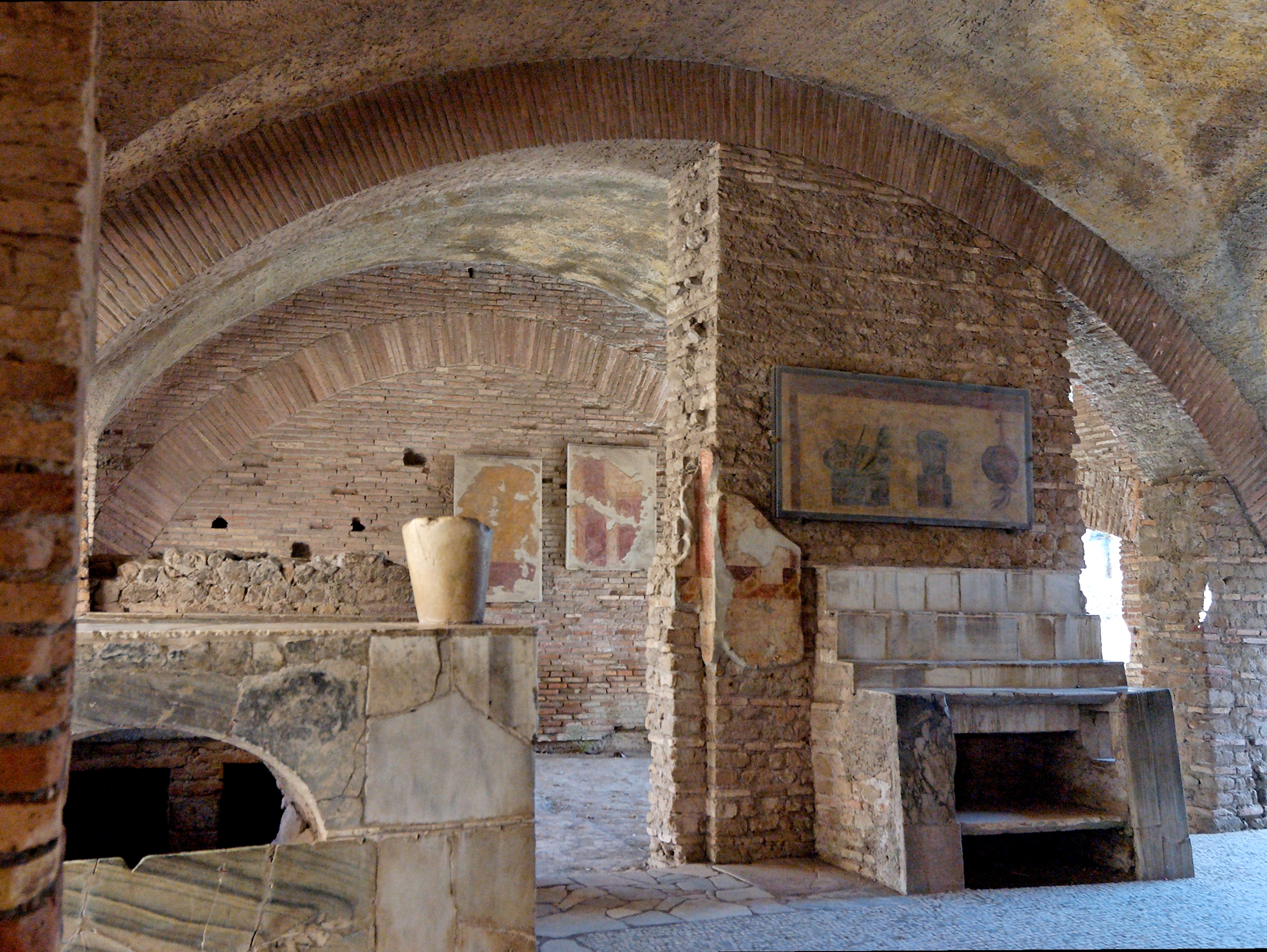 Interior of an Ancient Roman bar. Room 6 of the Caseggiato del Termopolio (House of the Bar), Ostia Antica, Latium, Italy.